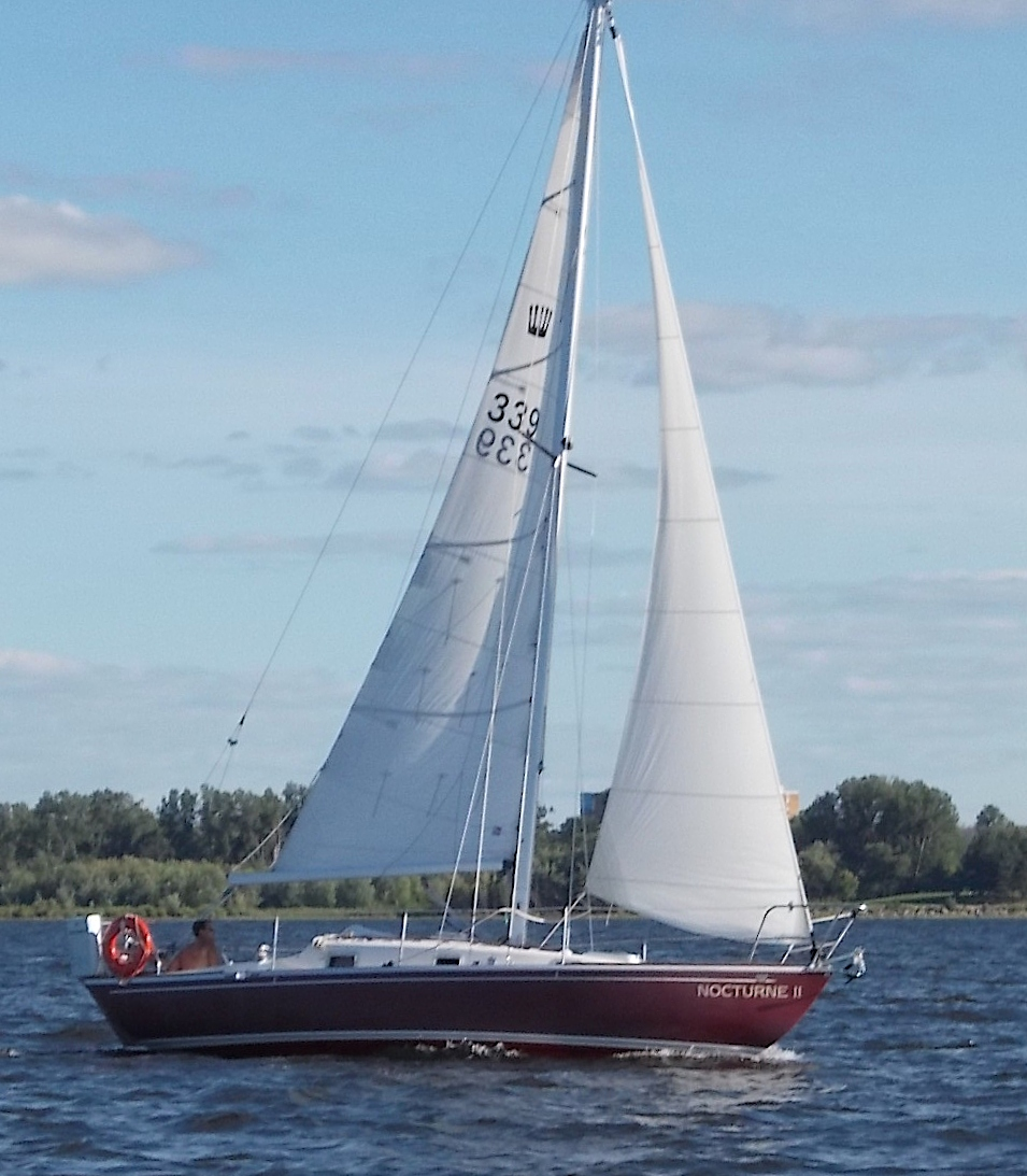 Contessa 26 sailboat, Nocturne II on Lac Deschênes, part of the Ottawa River, Ottawa, Ontario, Canada